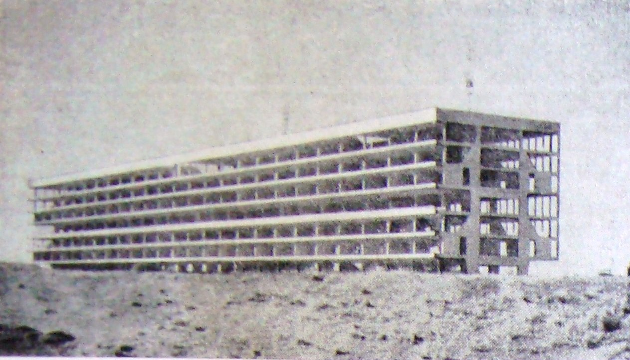 Unfinished building for student housing at the University Campus of Cerro San Javier. A December 18, 1948, National Government Decree signed by President Juan Perón expropriated 17,000 hectacres (43,000 acres) in the Sierra de San Javier for the University City project, which consisted of the construction of buildings and spaces for the relocation of the National University of Tucuman in the Sierra, in a natural reserve. Budget cuts in 1952 began to slow the pace of construction, and the project was completely suspended in 1955 by decision of the new national authorities following the coup against Perón. Other related works - such as the 33 homes in San Javier, the Anfama Aqueduct, and the Horco Molle Development - were ultimately carried out.